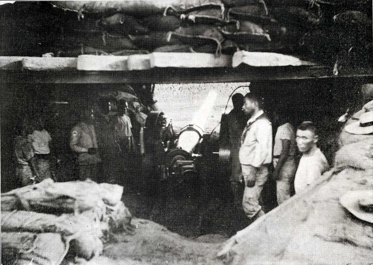 Heavy Artillery Emplacement of the Naval Brigade, 2